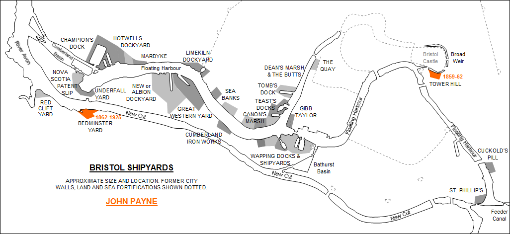 Bristol Ship yards, John Payne. Information based on from Farr (1971 & 1977)